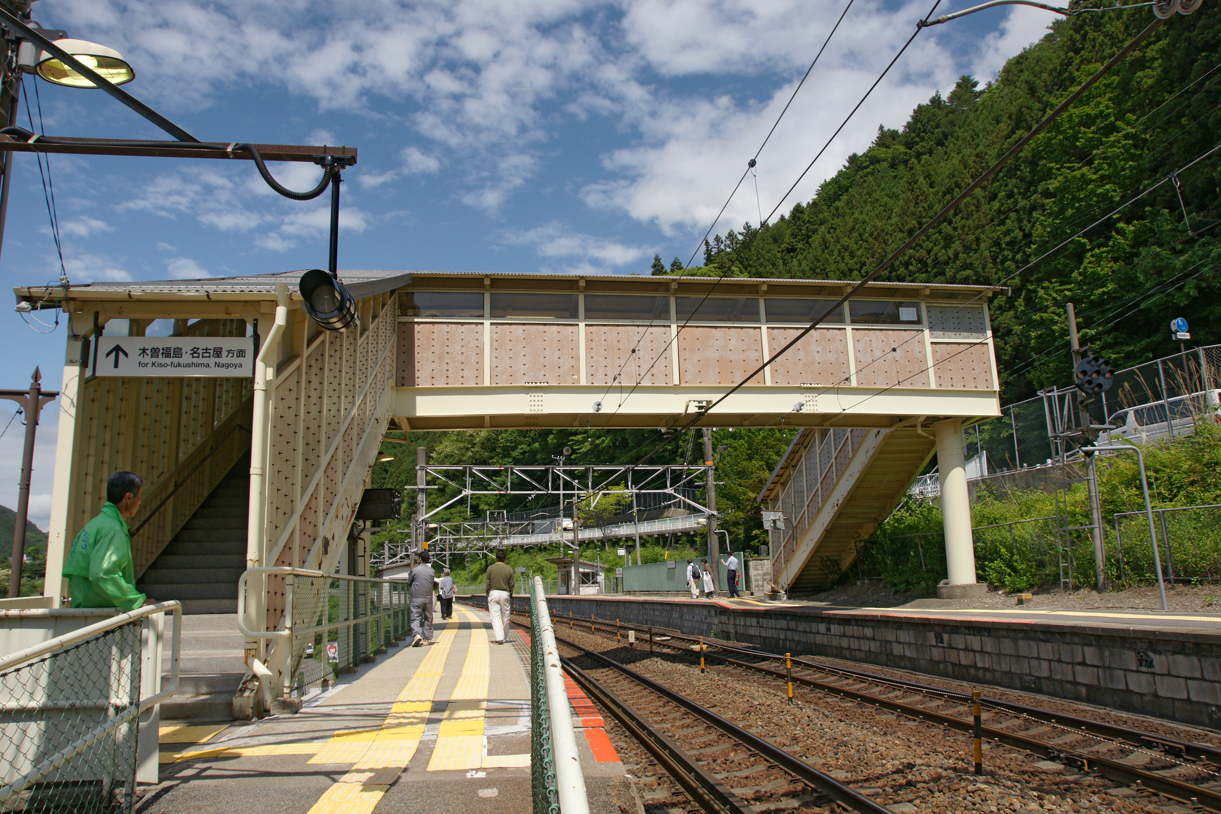 Kiso-hirasawa Station, Shiojiri, Nagano prefecture, Japan